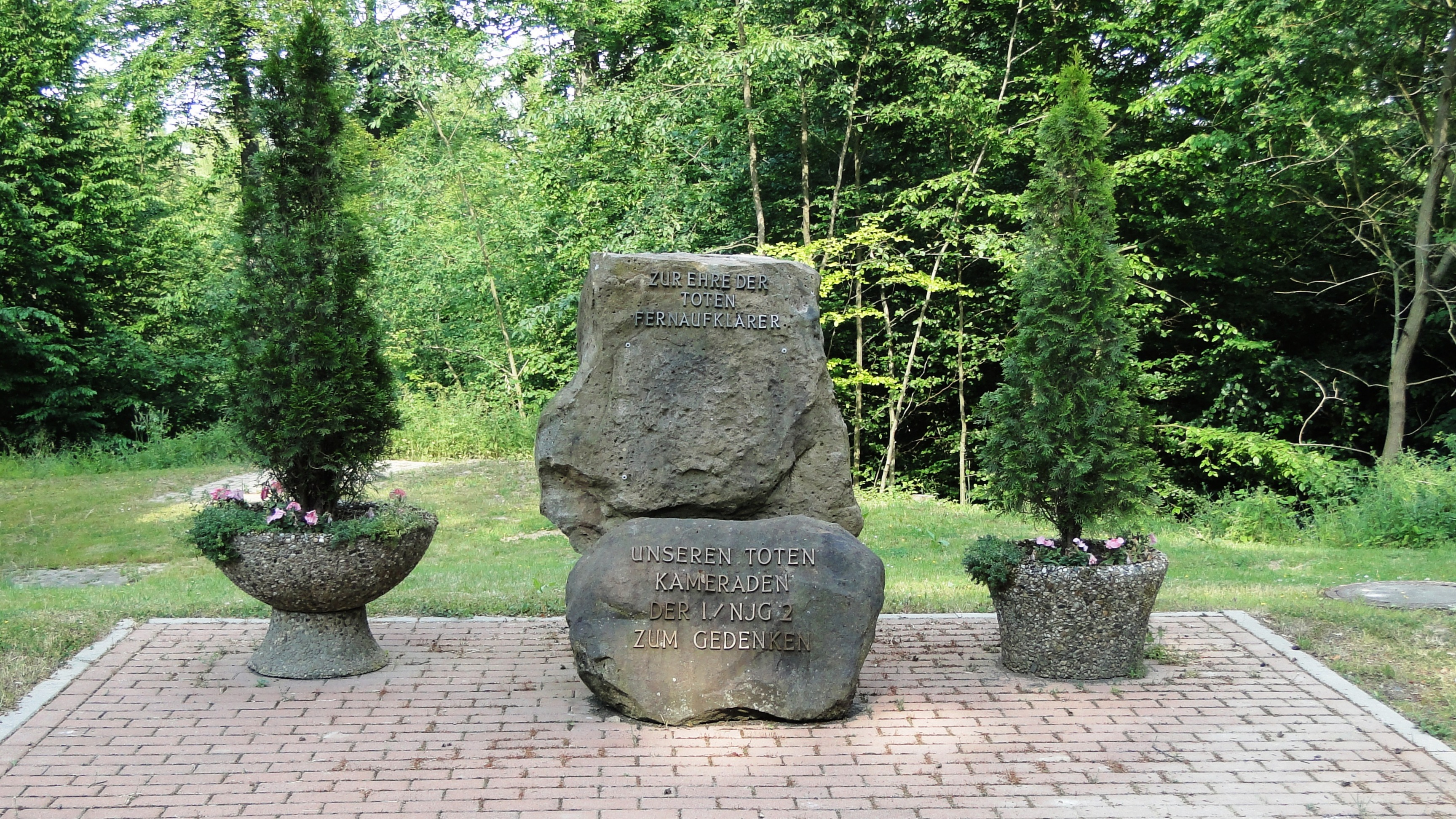 Military memorial to the dead Fernaufklärer at the former Fritz Erler Kaserne/Airfield Rothwesten at Fuldatal Rothwesten near Kassel, Germany. June 2015.